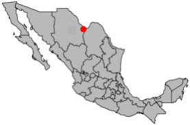 Location map of Manuel Benavides, México.